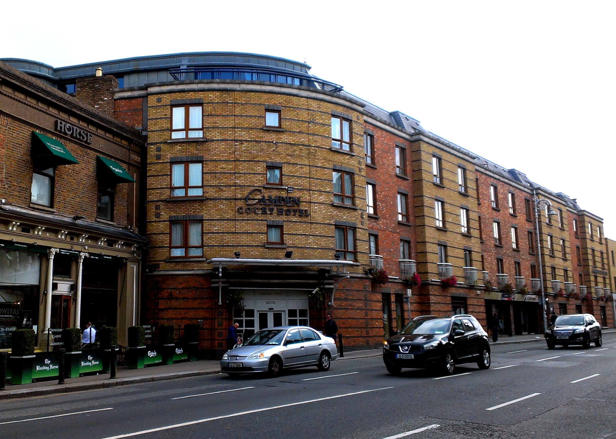 Camden Court Hotel, Dublin 2, Ireland